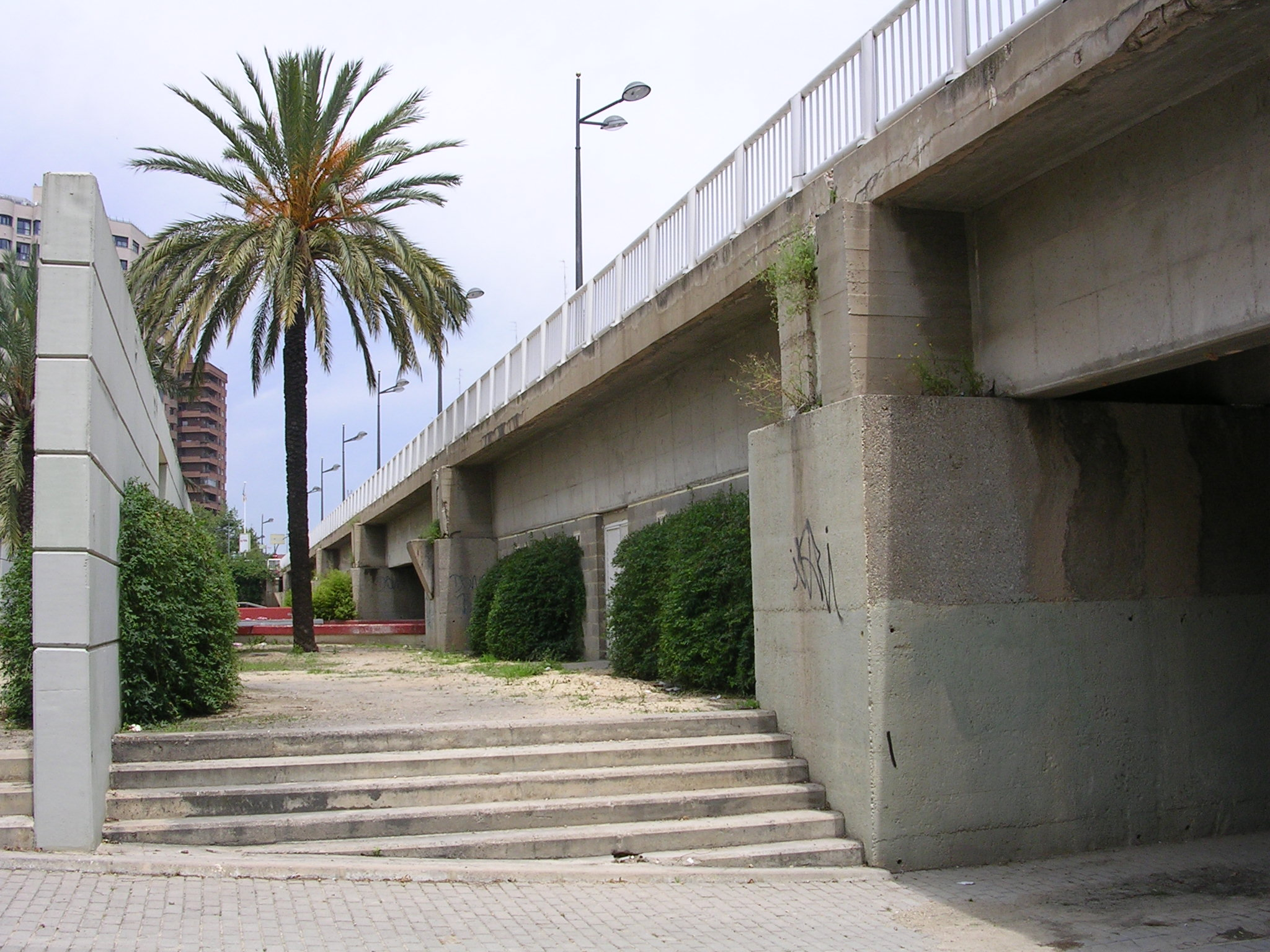 Campanar Bridge, Valencia, Spain